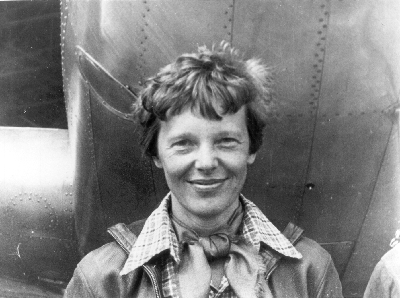 Amelia Earhart standing under nose of her Lockheed Model 10-E Electra. Gelatin silver print, 1937. National Portrait Gallery, Smithsonian Institution; gift of George R. Rinhart, in memory of Joan Rinhart